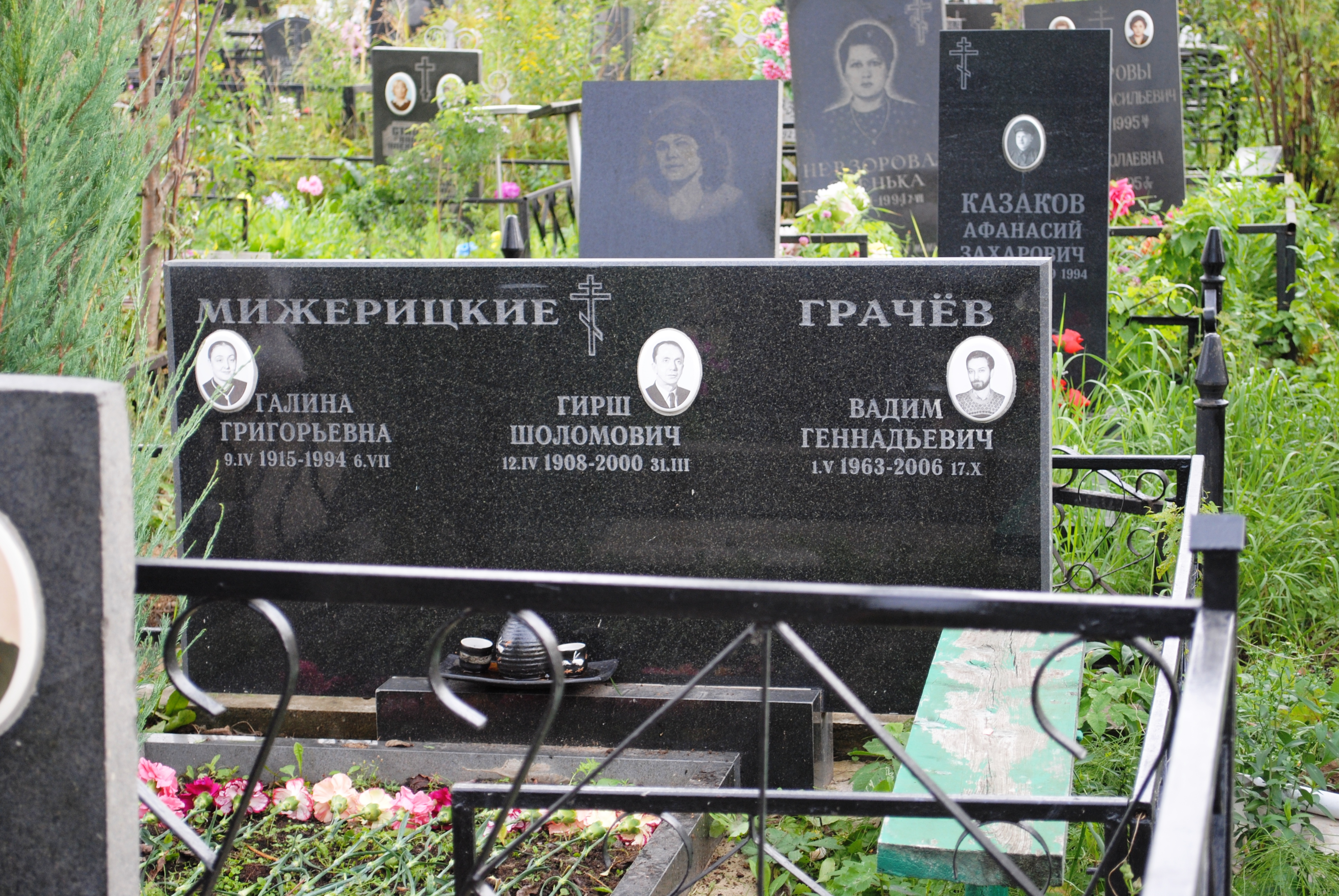 Grachev V. G